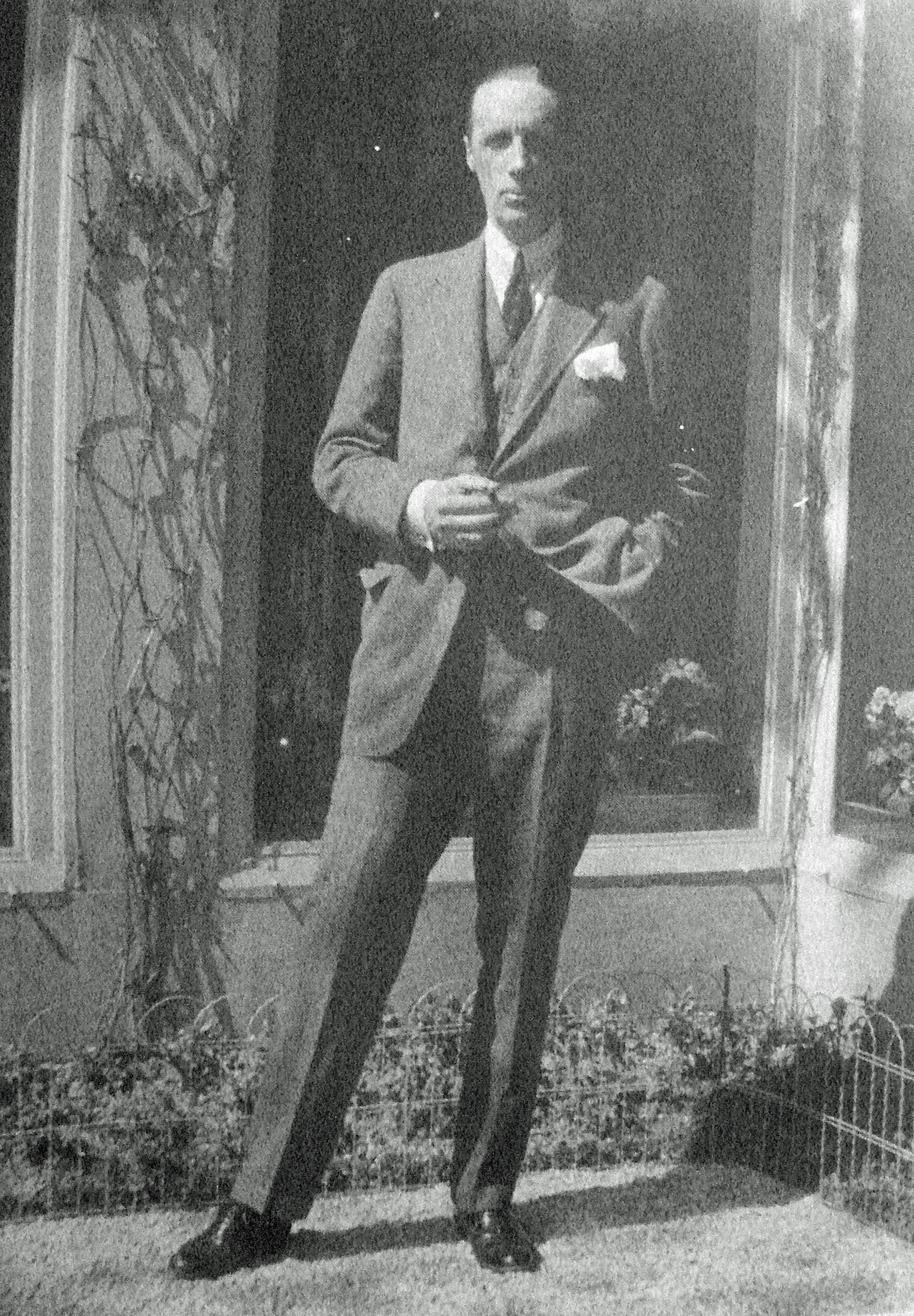 Prince Gabriel Constantinovich of Russia